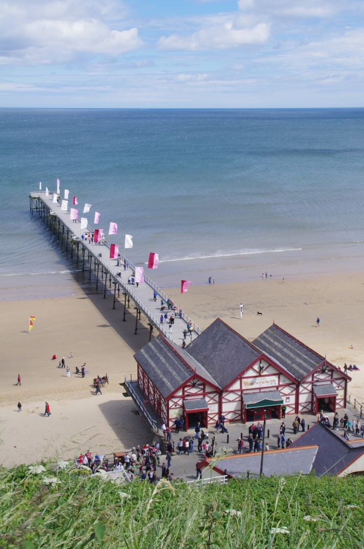 Saltburn Pier